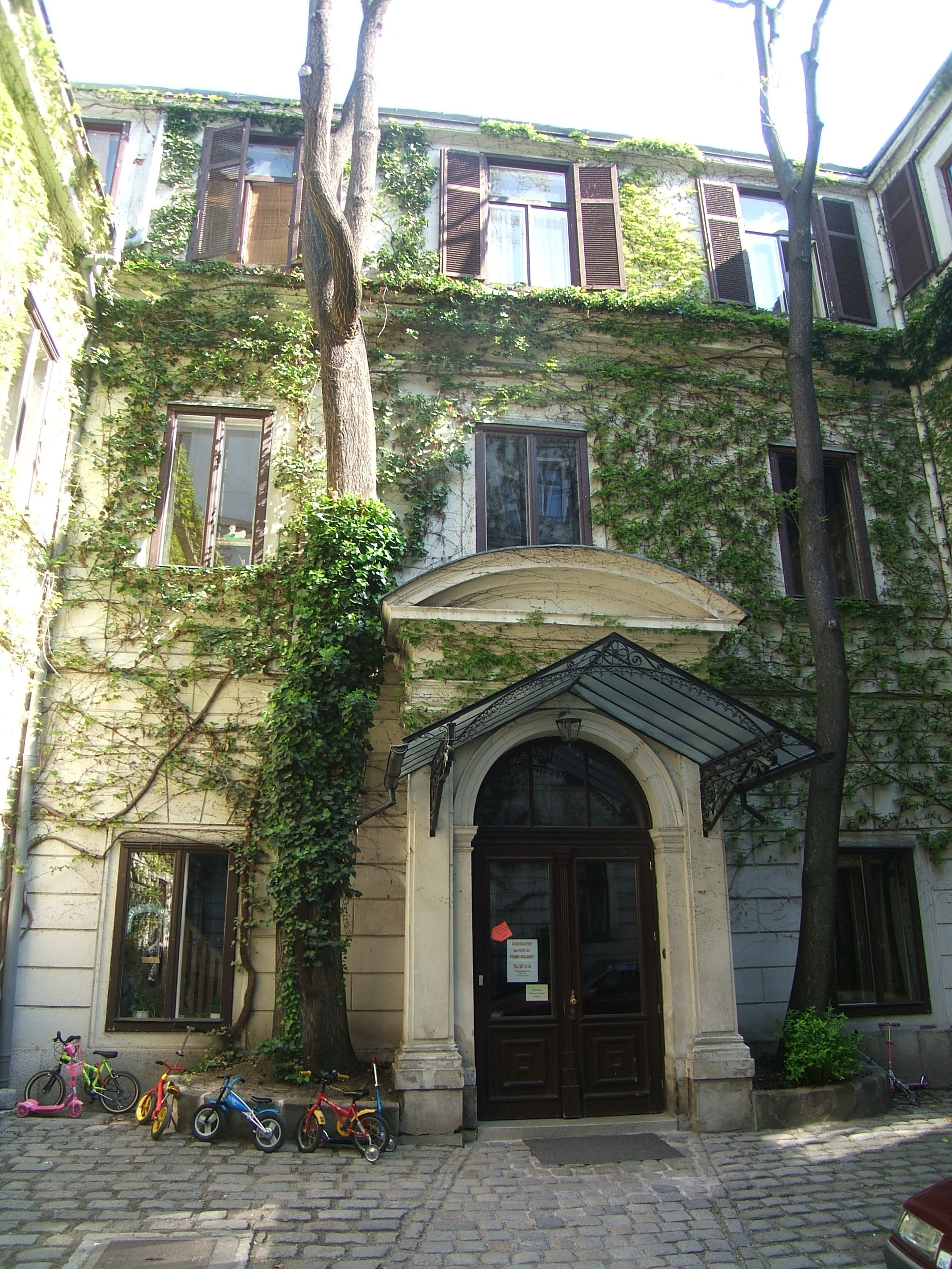 Palace Colloredo in Vienne 4th district Waaggasse 4 - ancient wing - view from courtyard.